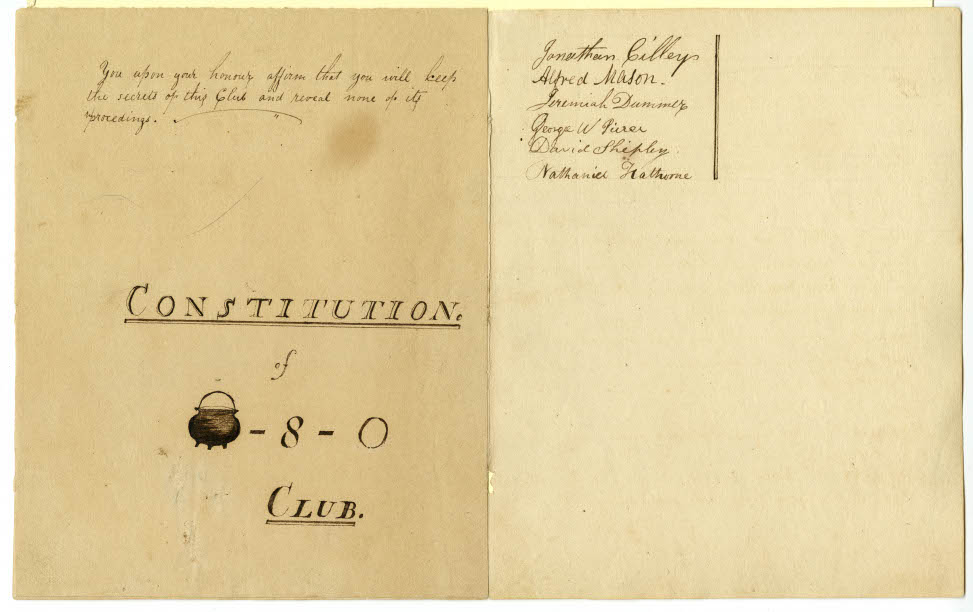 Constitution of the [Pot]-8-0 Club, a secret society formed at Bowdoin College in Brunswick, Maine, by Nathaniel Hawthorne and five other Bowdoin undergraduates, circa 1824. Donated to Bowdoin College Library, Nathaniel Hawthorne Collection by L. Brooks Leavitt